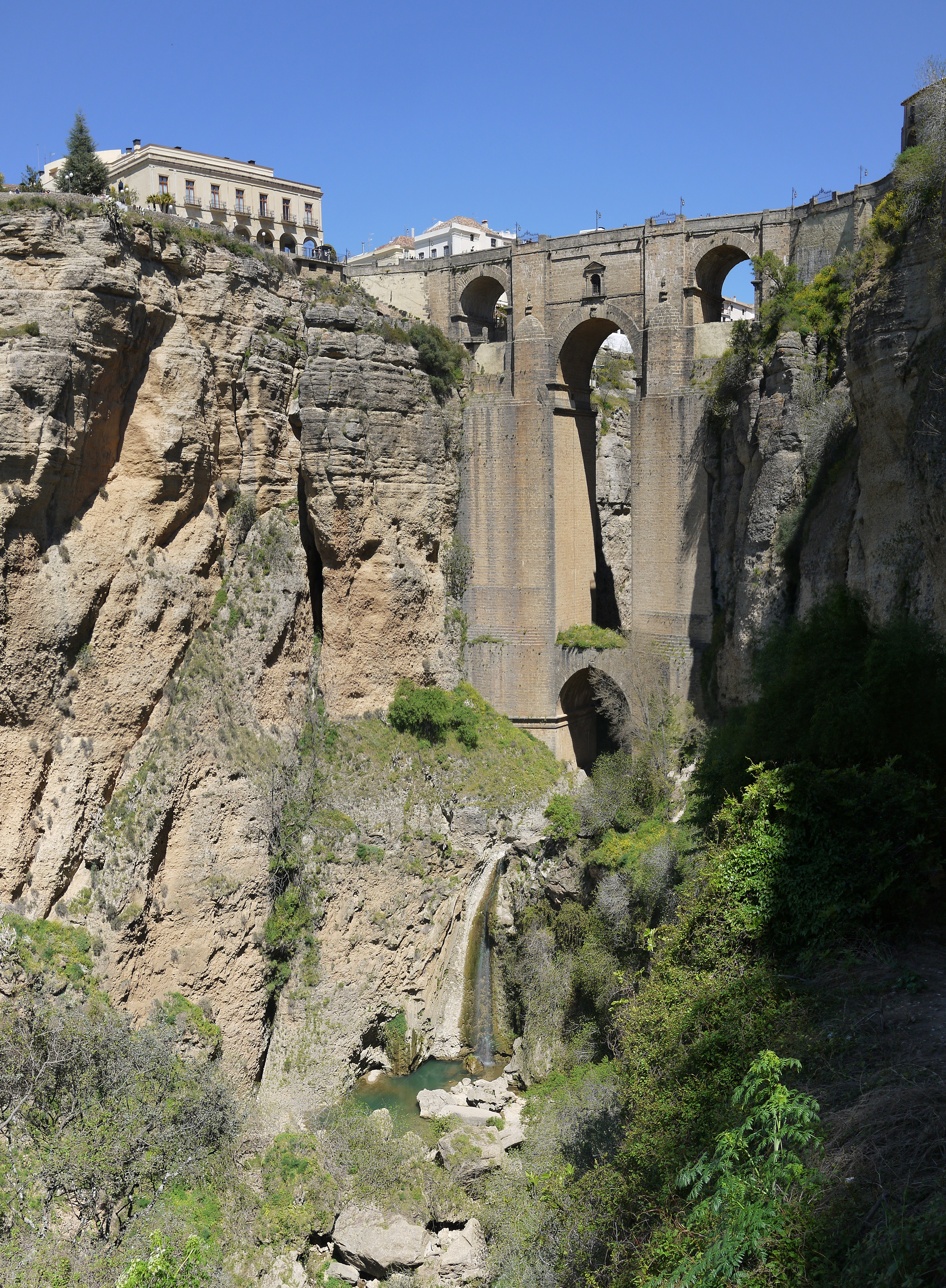 Ronda Ponte Nuevo and El Tajo gorge